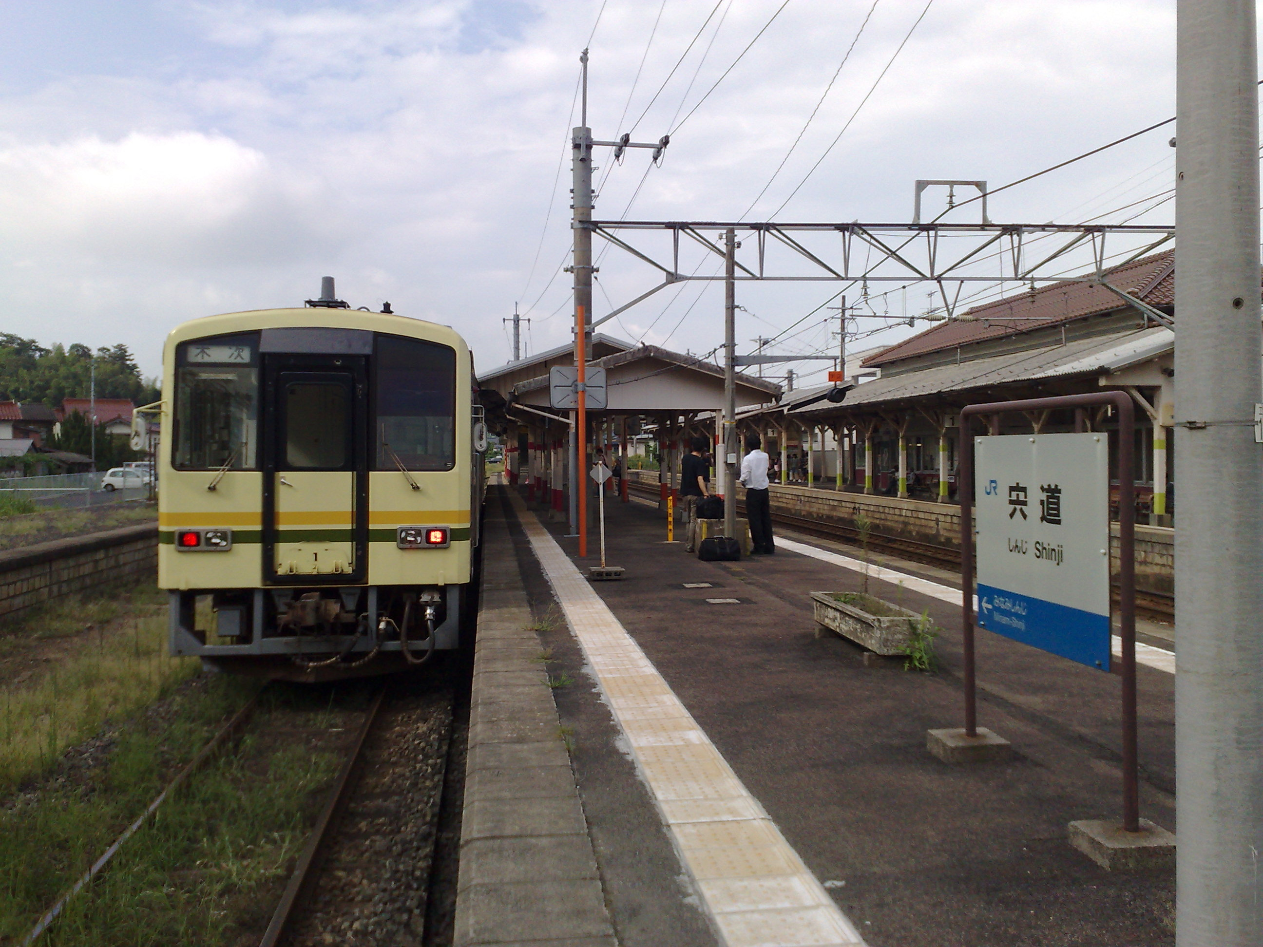 JR West Shinji Station platform 3 for the Kisuki Line